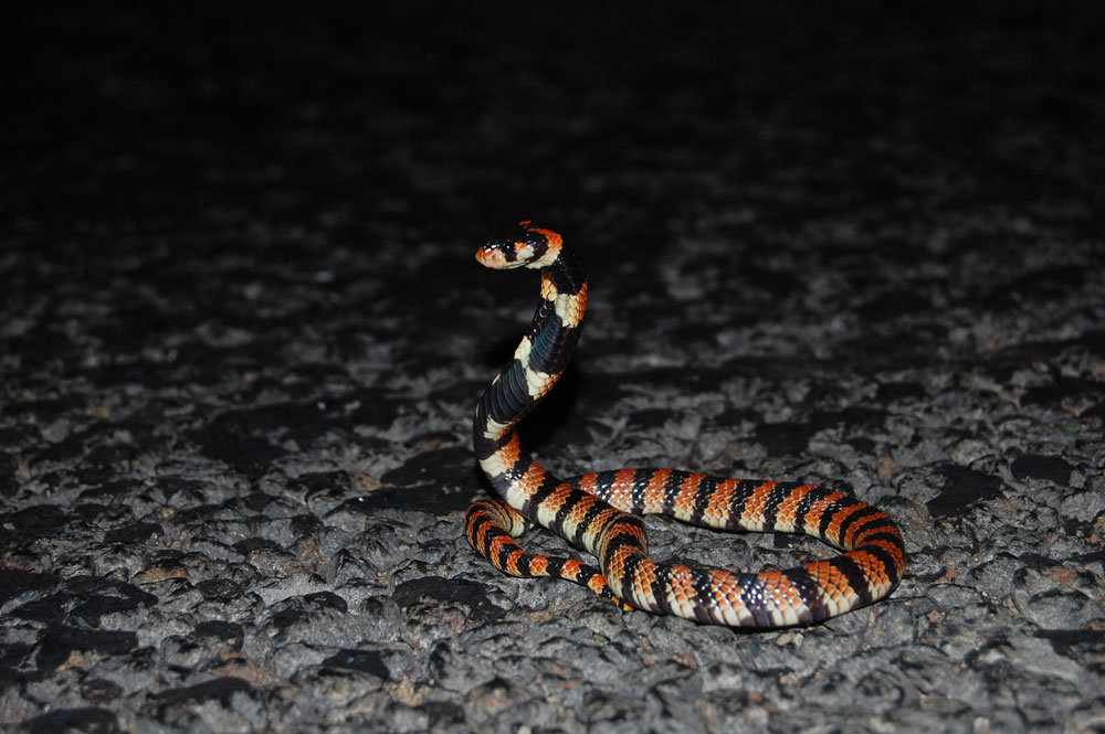 Cape Coral Snake, Aspidelaps lubricus, found on road at night.